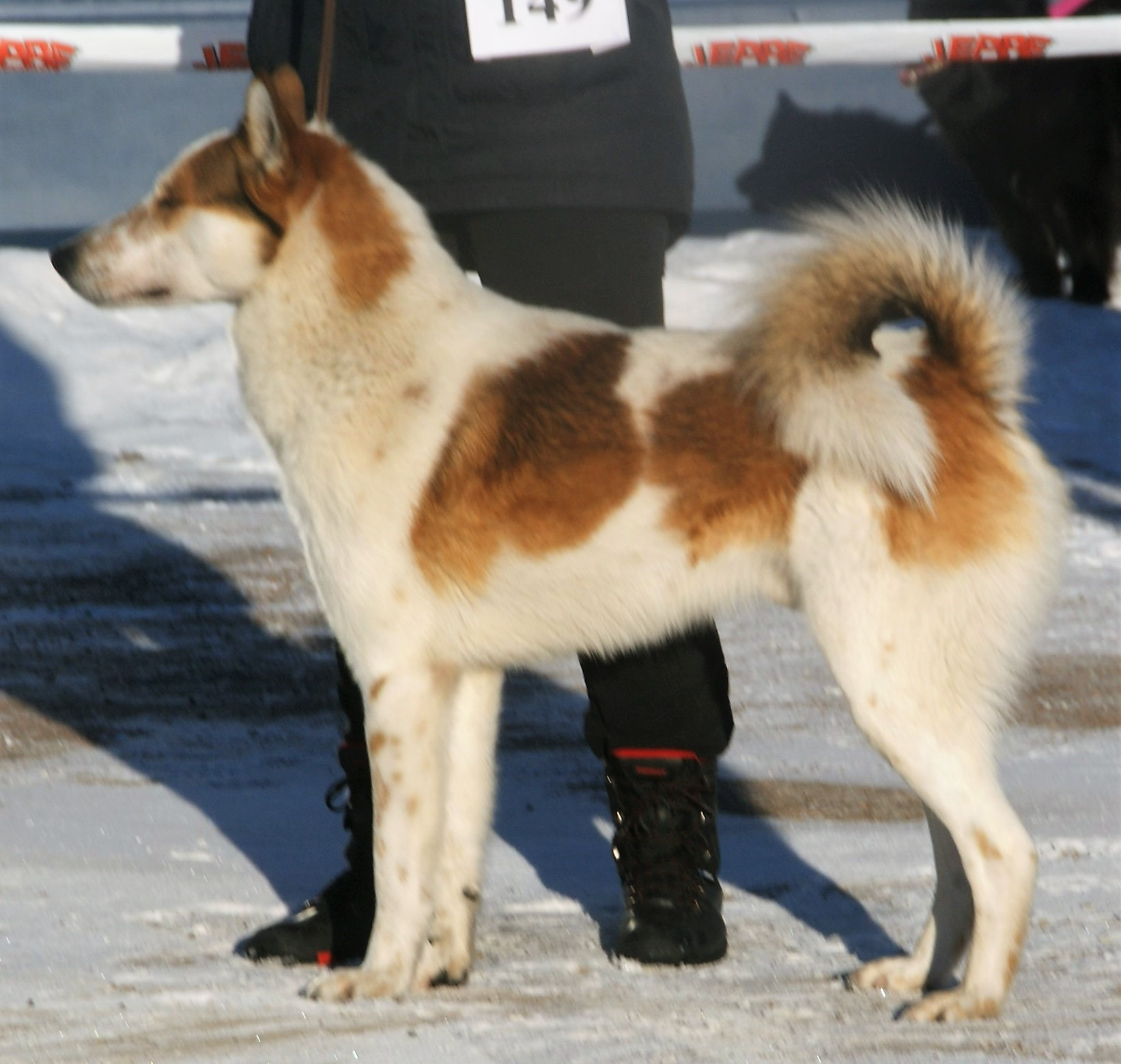 East Siberian Laika male, white & sable